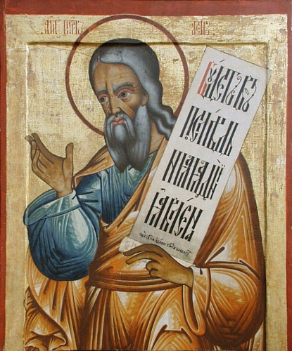 Prophet Isaiah, Russian icon from first quarter of 18th cen.